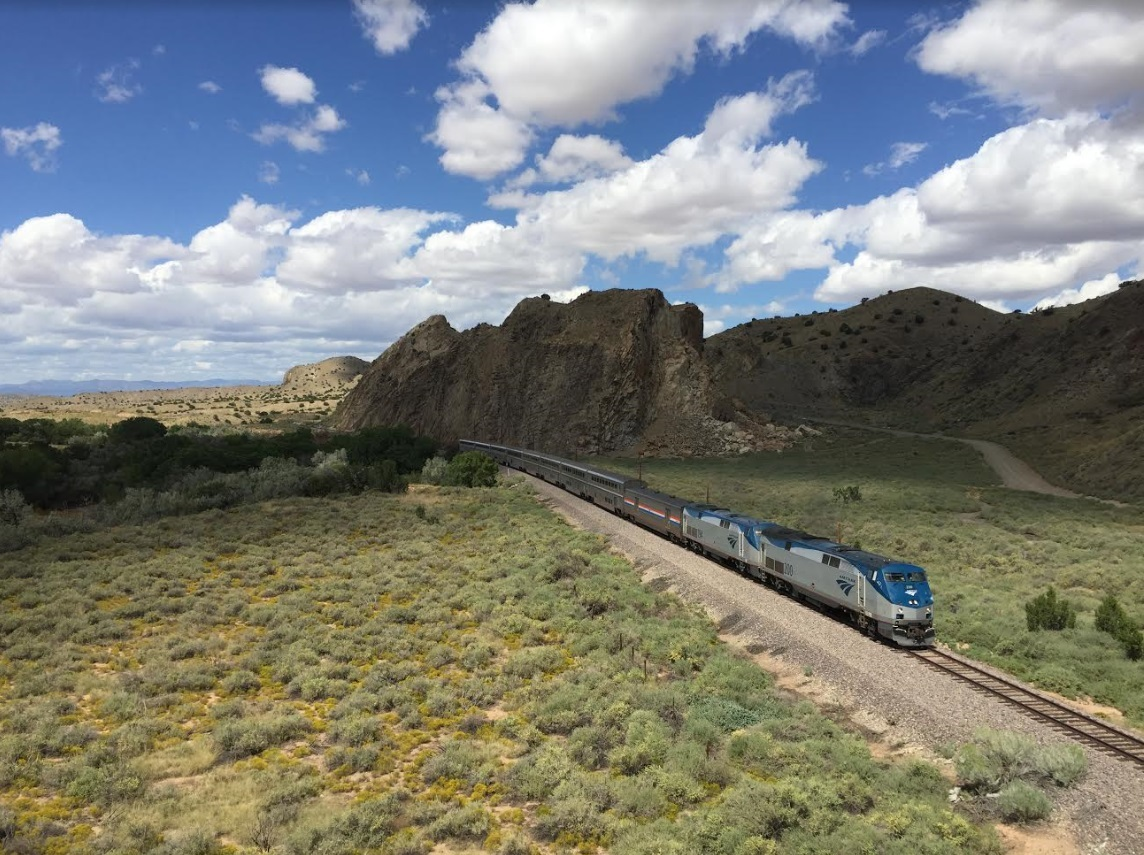 Amtrak Southwest Chief (number 4) at Devil's Throne, New Mexico